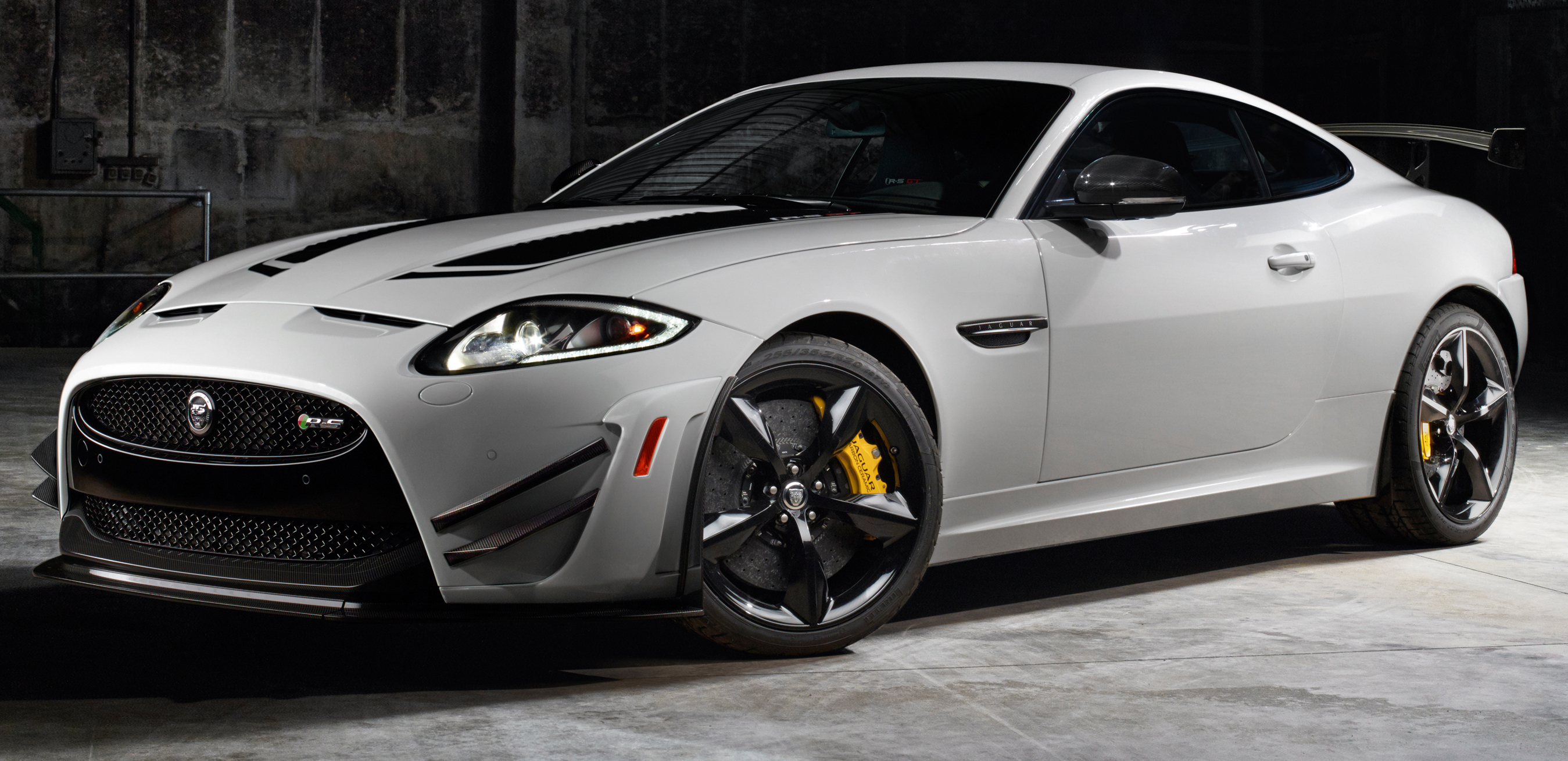 The XKR-S GT is the most extreme iteration of the Jaguar R Brand's performance focus. Utilising race-car derived technology, all-aluminium construction and an uncompromised approach to aerodynamic efficiency, the result is a car as capable on the track as it is exhilarating on the road.